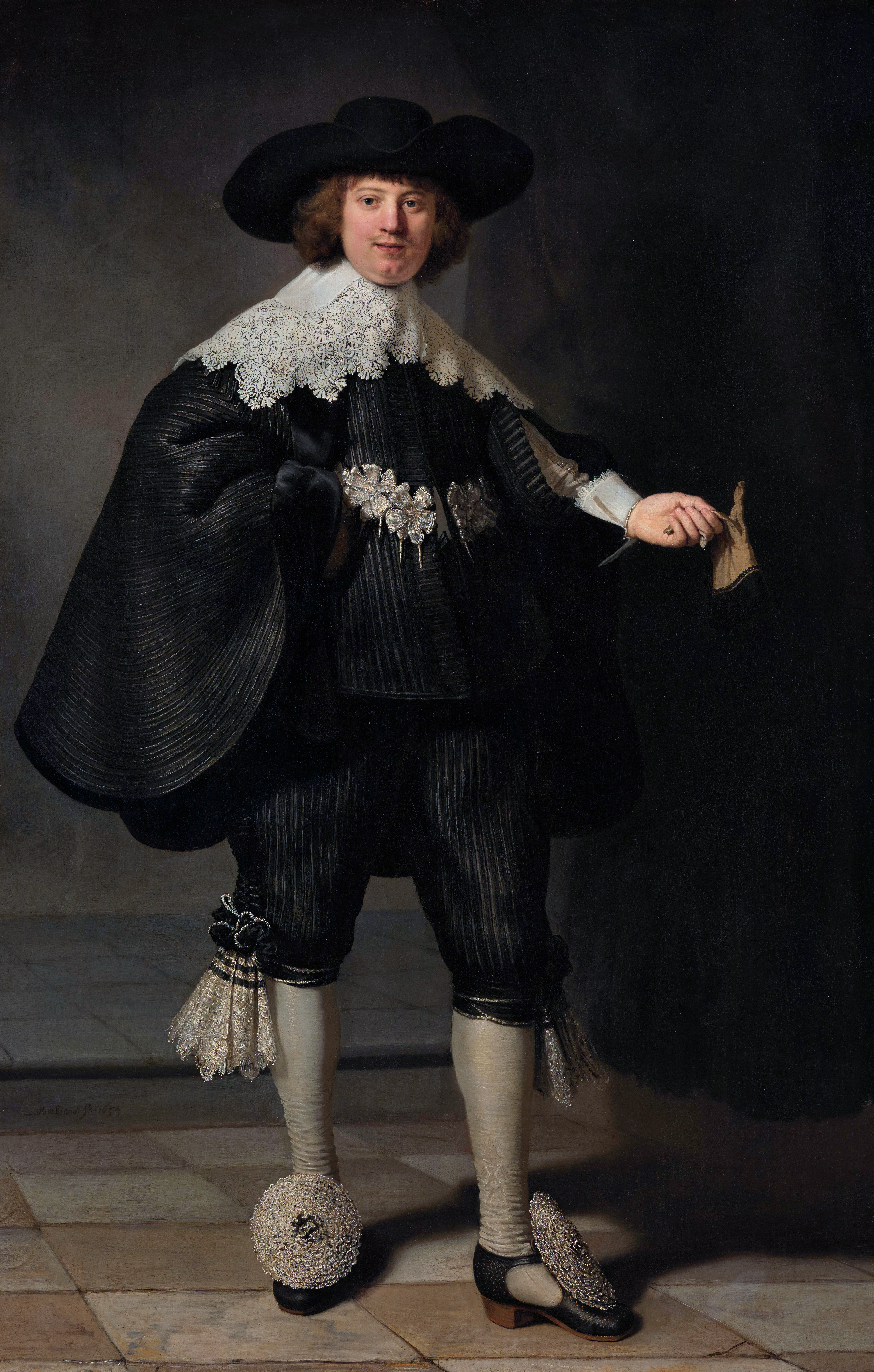 Marten Soolmans (1613-1641)